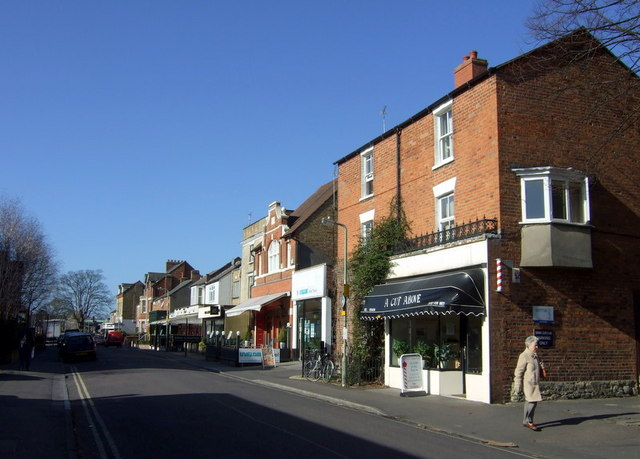 South Parade Summertown's 'village street' of mainly small shops, restaurants and other neighbourhood facilities. It is said the name derives from the fact of its being the southernmost parade ground for the Parliamentary army during the Civil War, in contrast to the Royalists' northern parade further down the Banbury Road - but this may be apocryphal.